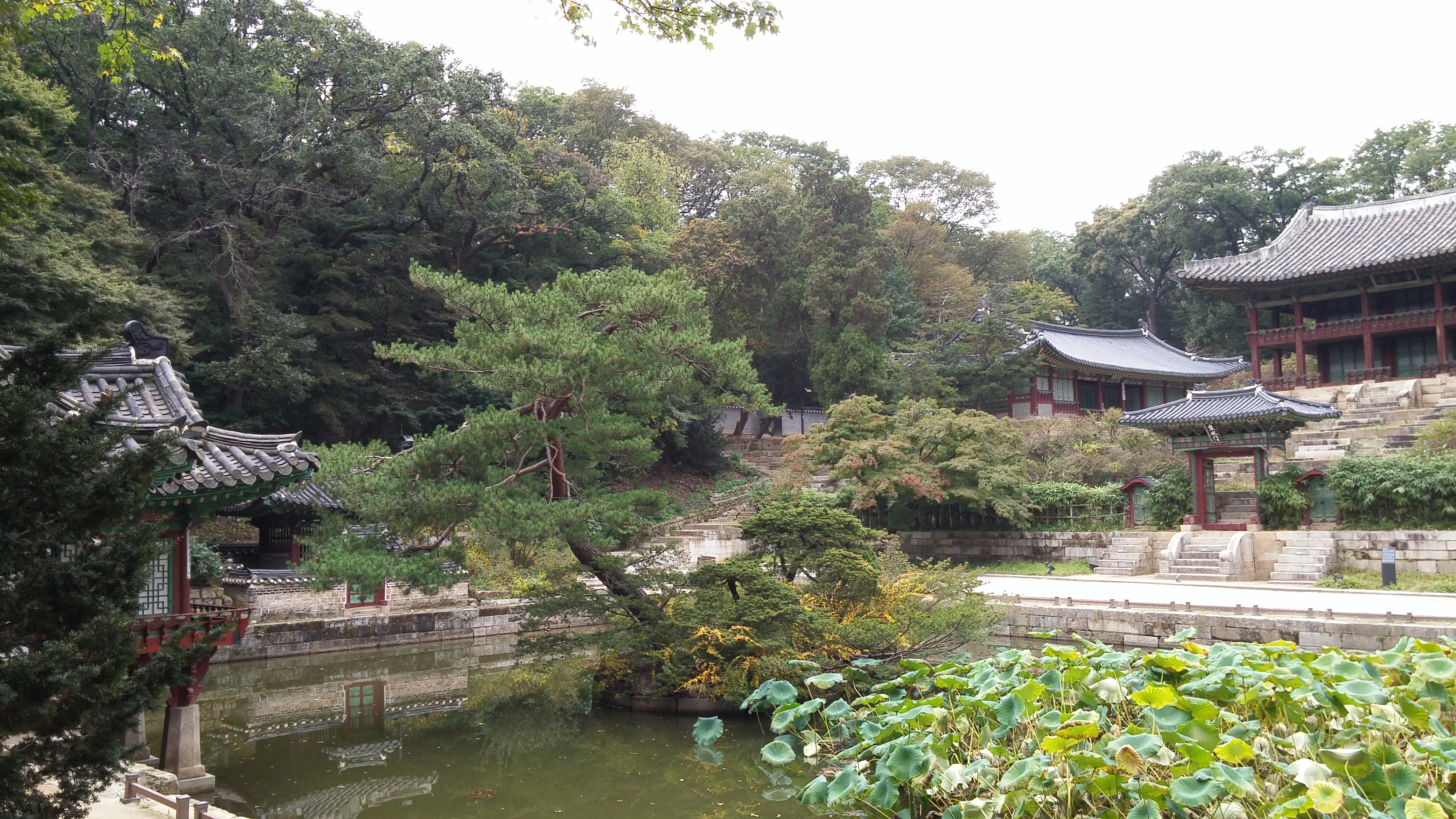 The Secret Garden of Changdeokgung in Seoul.